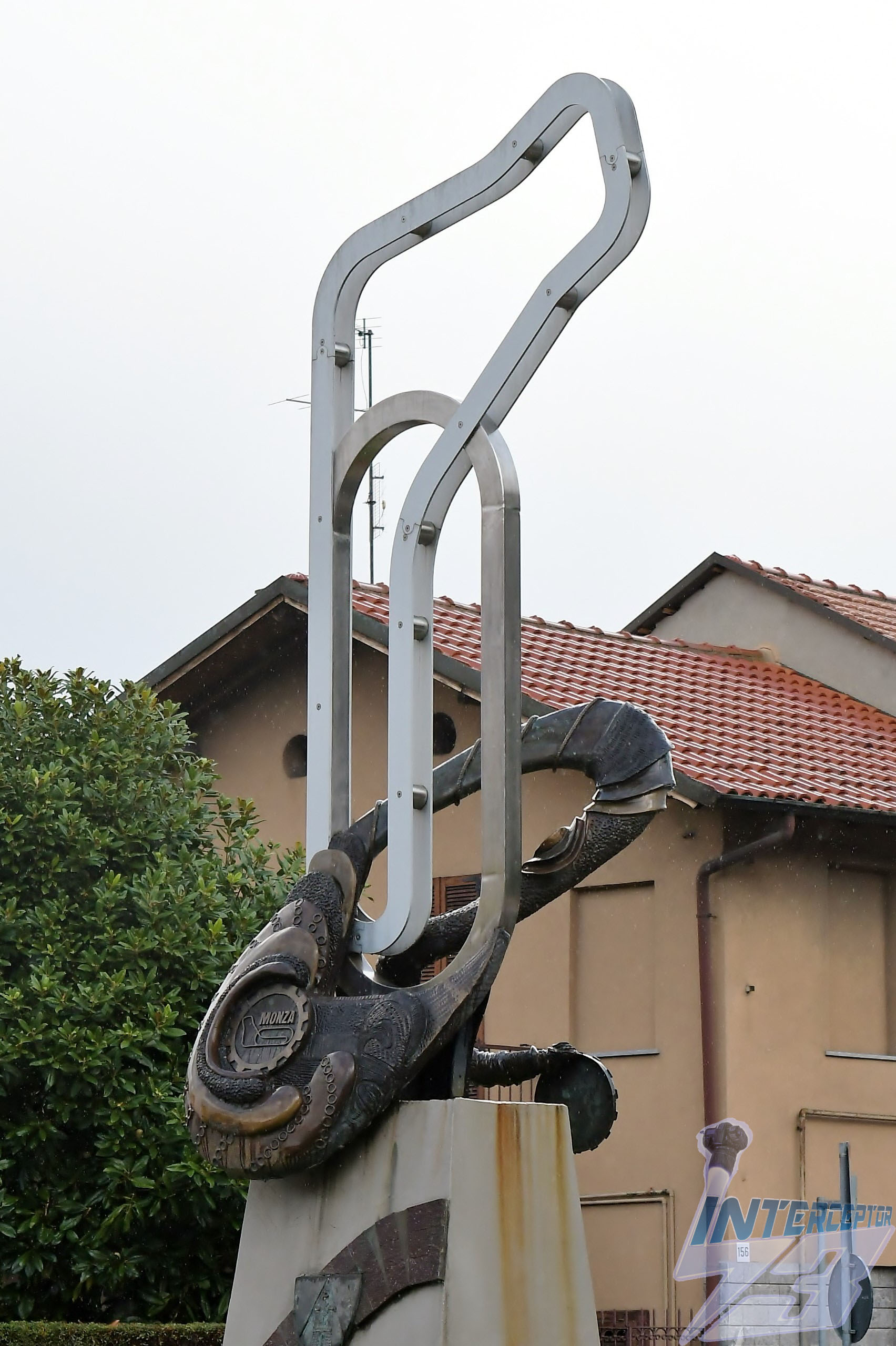 Monza Race Circuit Statue, Monza, 2019 Italian Grand Prix, 8th September